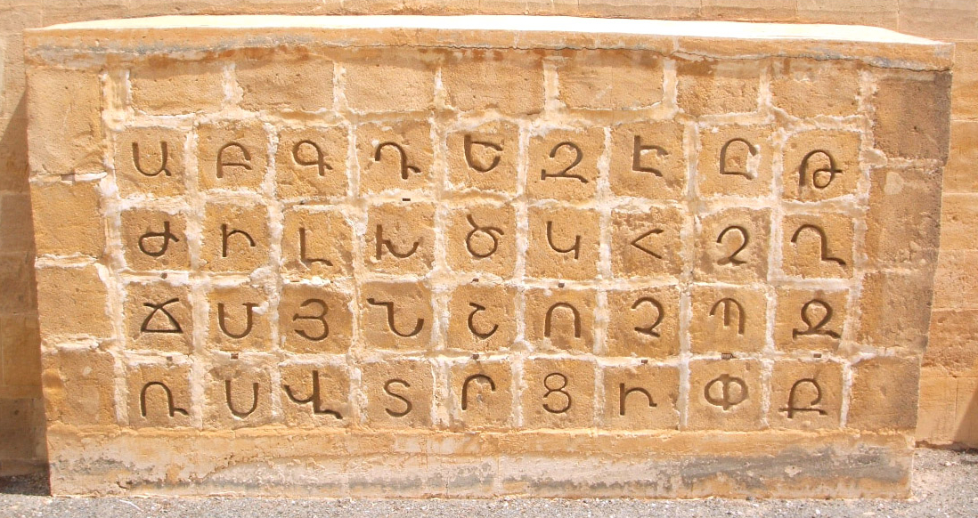 The Armenian Alphabet at the Melkonian Educational Institute in Nicosia, Cyprus